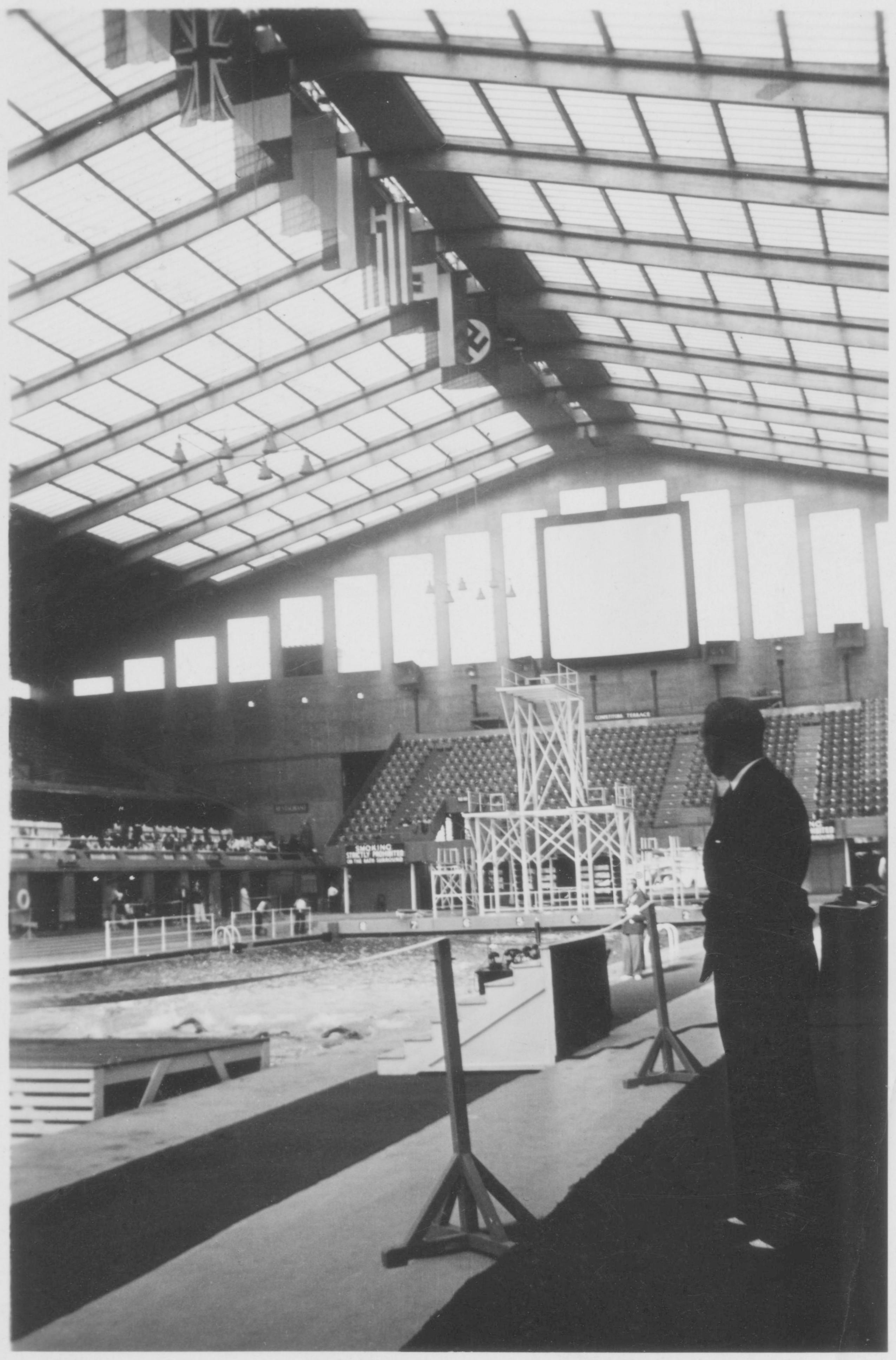 Empire Pool Wembley in the first day of 1938 European Aquatics Championships. London, 6th of August 1938. Picture from famous Lithuanian swimmer and diver Valentinas Vaškelis personal archives.